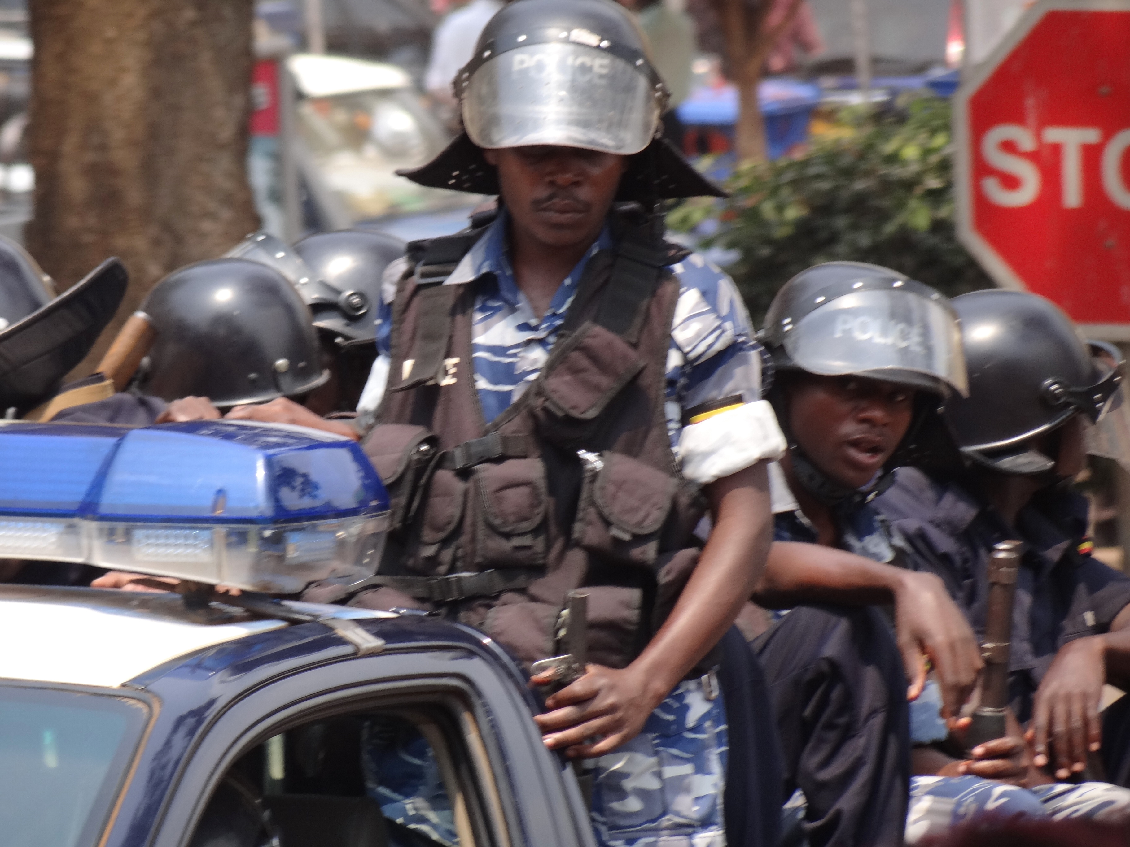 Police Cruise through Downtown Kampala - Uganda